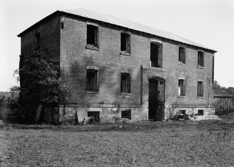 Bellona Arsenal, Workshops, State Route 673 vicinity, Richmond vicinity (Chesterfield County, Virginia) cropped This file comes from the Historic American Buildings Survey (HABS), Historic American Engineering Record (HAER) or Historic American Landscapes Survey (HALS). These are programs of the National Park Service established for the purpose of documenting historic places. Records consist of measured drawings, archival photographs, and written reports. When reusing please credit: Library of Congress, Prints & Photographs Division, VA,21-____,3-1 This tag does not indicate the copyright status of the attached work. A normal copyright tag is still required. See Commons:Licensing. This work is in the public domain in the United States because it is a work prepared by an officer or employee of the United States Government as part of that person’s official duties under the terms of Title 17, Chapter 1, Section 105 of the US Code. Note: This only applies to original works of the Federal Government and not to the work of any individual U.S. state, territory, commonwealth, county, municipality, or any other subdivision. This template also does not apply to postage stamp designs published by the United States Postal Service since 1978. (See § 313.6(C)(1) of Compendium of U.S. Copyright Office Practices). It also does not apply to certain US coins; see The US Mint Terms of Use. This file has been identified as being free of known restrictions under copyright law, including all related and neighboring rights.